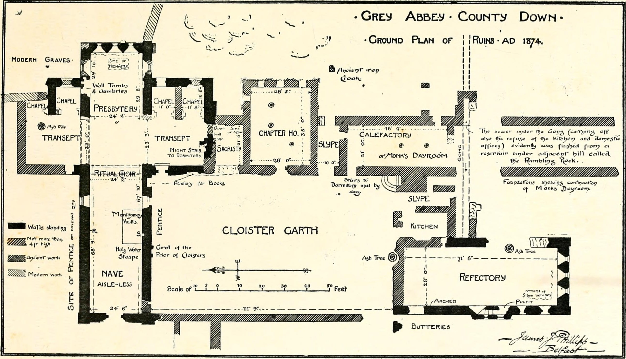 Title: Journal of the Royal Society of Antiquaries of Ireland Year: 1849 (1840s) Authors: Royal Society of Antiquaries of Ireland Royal Society of Antiquaries of Ireland. Transactions Royal Society of Antiquaries of Ireland. Proceedings and transactions Royal Society of Antiquaries of Ireland. Proceedings and papers Subjects: Publisher: Dublin, Ireland : The Society Text Appearing Before Image: in two chapels, II feet 6 inches broad and16 feet deep. These chapels were separated from each other by a wall,from which sprang the stone arched barrel vaulting; and each pair ofchapels had an external roofing over this vaulting, as is evidenced by astone string course which marks the line of roof on the north elevation. The chancel, which was 24 feet 6 inches broad and 30 feet long, hadits eastern end square, the gable having a double tier of triplet windowsof early pointed form, with smaller windows at the top. The northand south windows lighting the eastern arm of the church were origin-ally of similar character and form, but at some subsequent date theyhave had decorated stone tracery inserted on the outside. The chancelarch and the south transept arch have fallen, but the choir arch and thenorth transept arch still remain. The walls above these arches give 1 Abstract prepared by Mr. J. J. Phillips, Aixhitect, for the Societys visit, froma monograph published by him in a.d. 1874. Text Appearing After Image: 362 KOYAL SOCIETY OF ANTIQUARIES OF IRELAND. evidence of having been carried at least for one story above the roof ofthe four arms of the crux. Probably there was a low lantern towerhere -which was finished with a parapet. The west doorway is a good specimen of early English work; it hasno portico or narthex. This doorway, which had gone to ruin, wasrepaired, in 1842, by Mr. Montgomery, who had the fragments collectedand rebuilt, as far as possible, in their original position, though thecentre is now somewhat distorted.